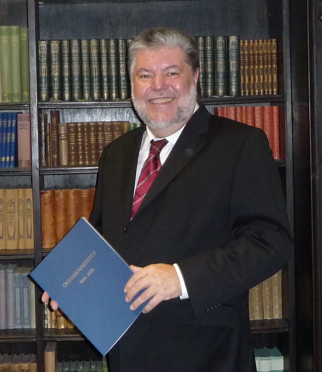 Kurt Beck in the East Asia Institute (Ostasieninistitut) Ludwigshafen, Germany